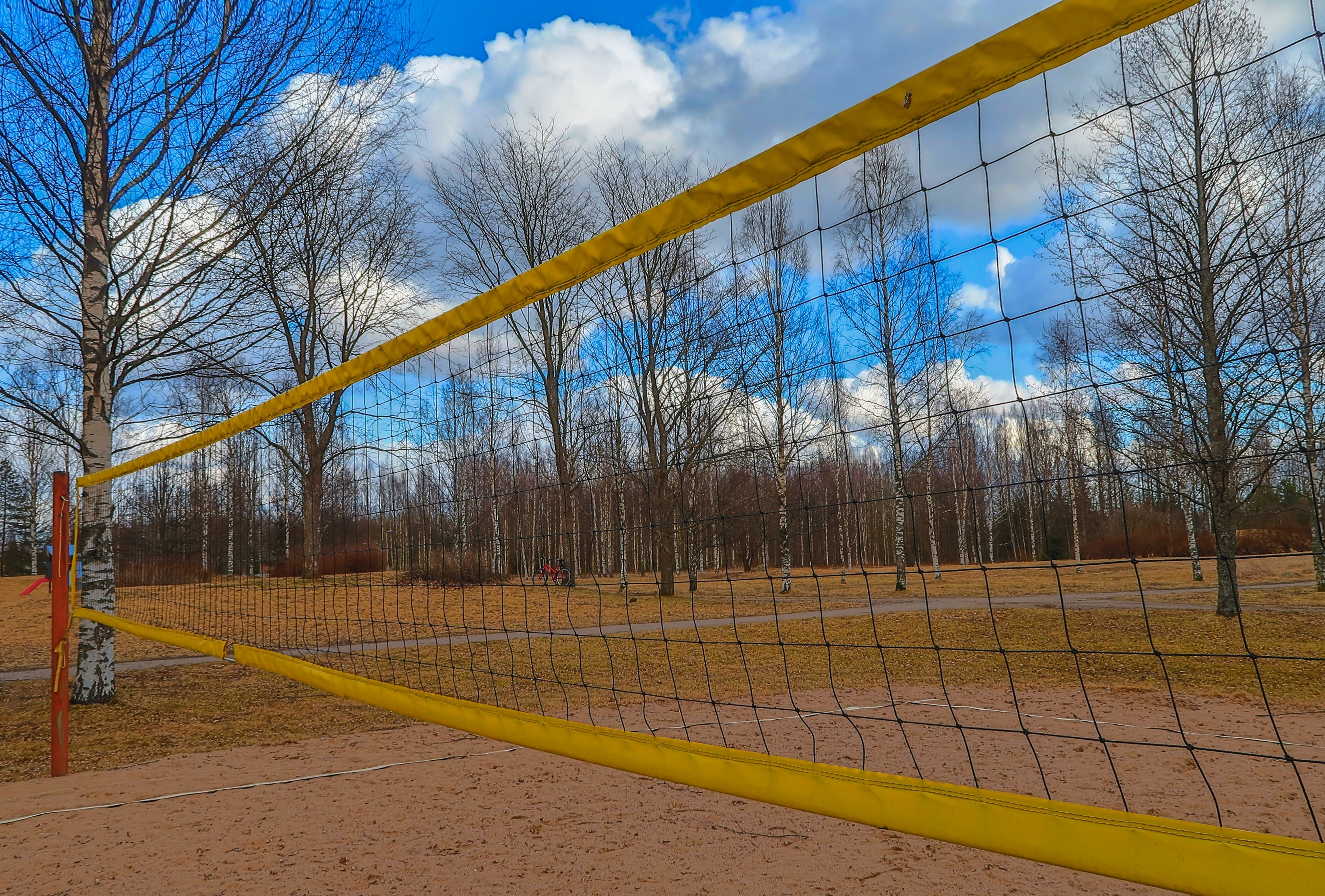 City park and volleyball court are waiting for warm sun in Hyvinkää (Finland).